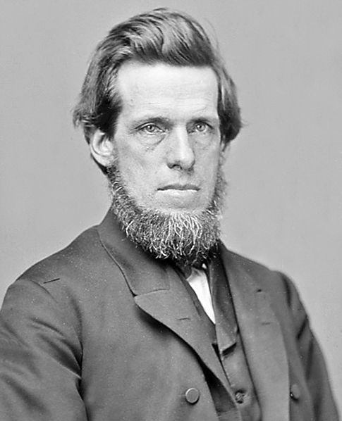 Ezra Wheeler (Wisconsin Congressman)